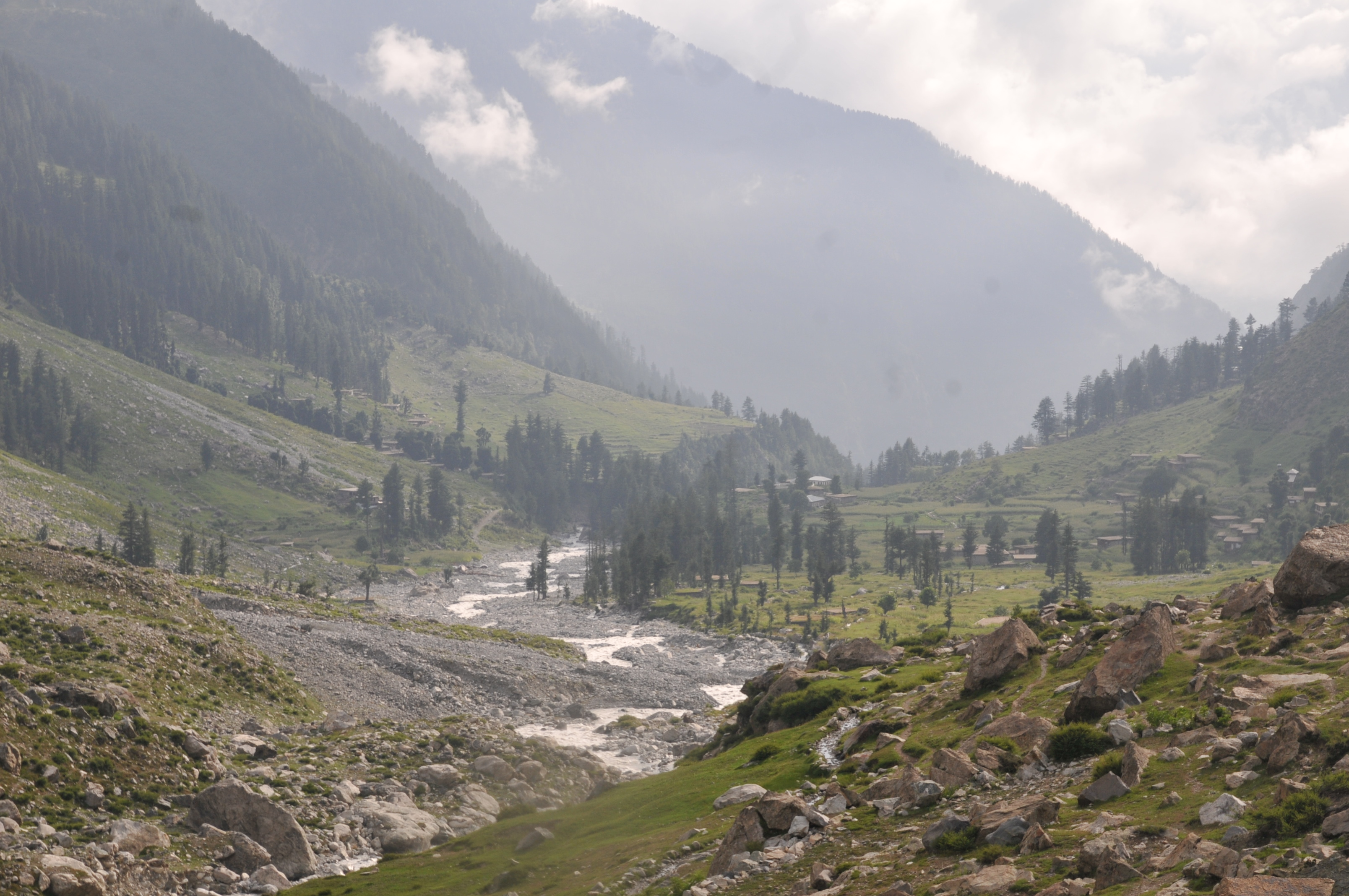 Swat valley paradise 07